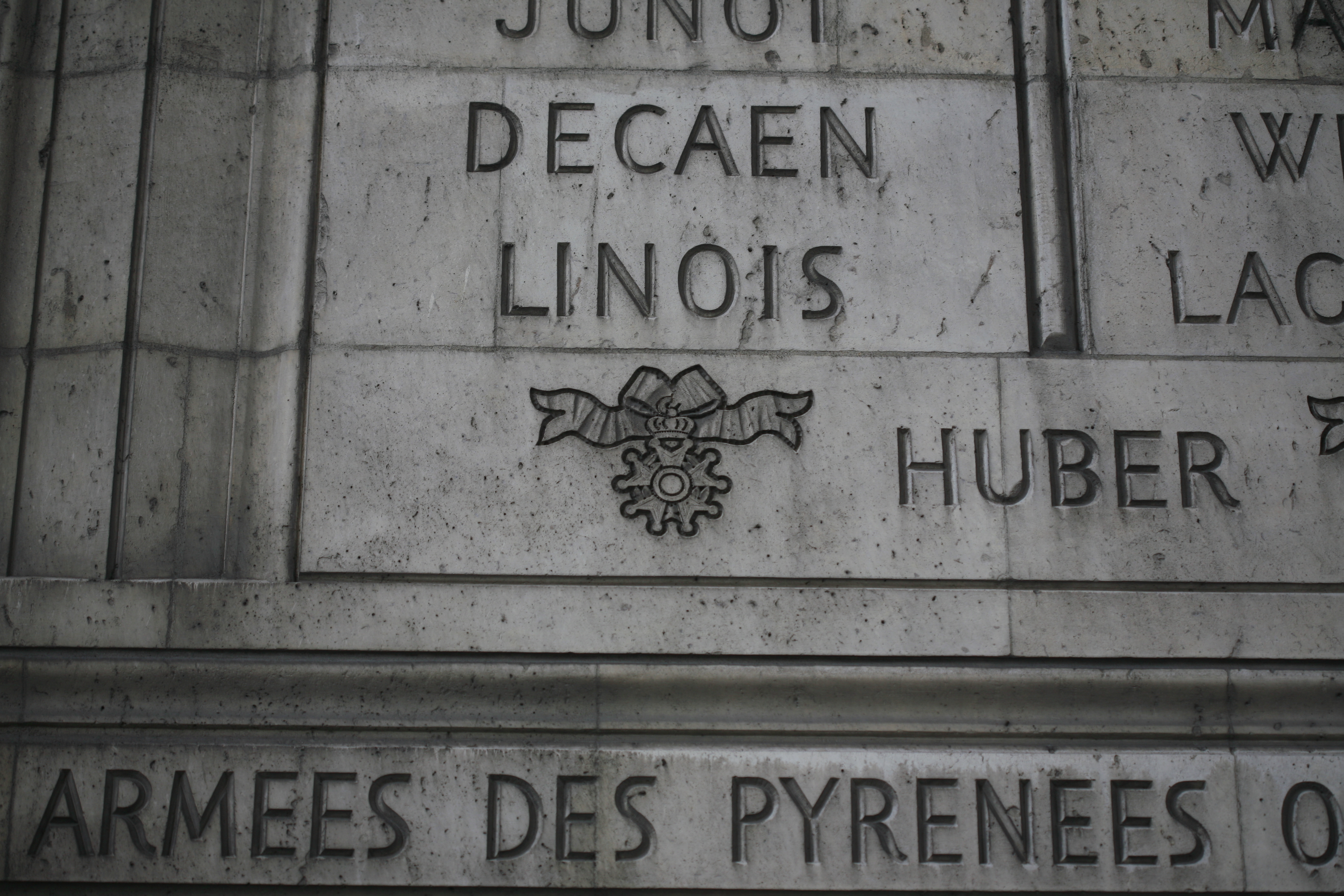 Inscriptions of the Arc de Triomphe